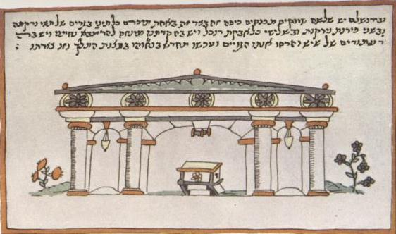 The ancient synagogue in Jerusalem as depicted in the Casale Pilgrim, an anonymous 16th-century illustrated guide to the Holy Land. According to the Hebrew annotation, the image shows the synagogue attributed to Nachmanidies. “In it are four pillars of marble. The gentiles destroyed it, but recently it was rebuilt by order of the king.”